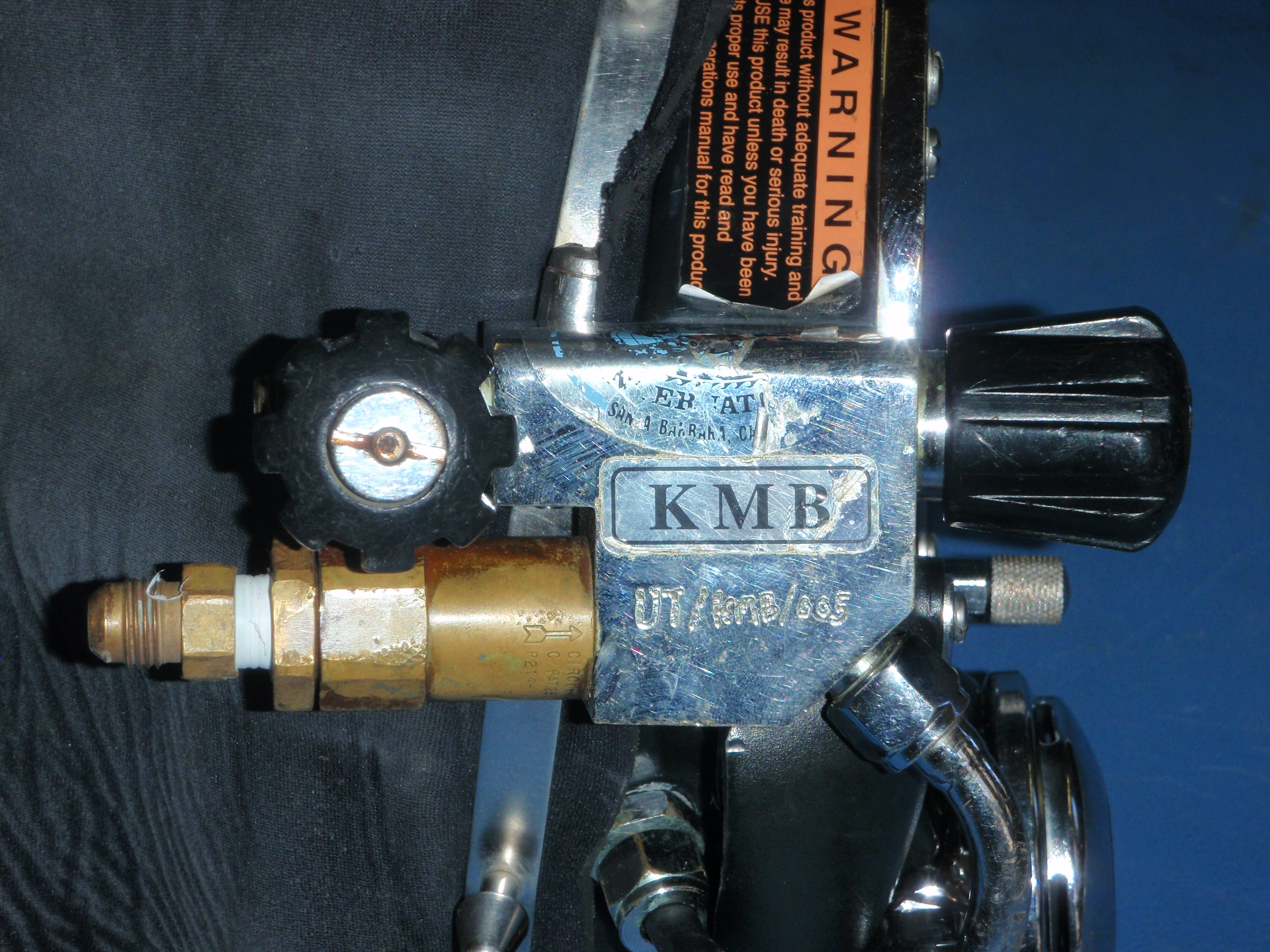 Detail of the RH side of a Kirby Morgan 18 band mask showing the bailout block and associated fittings